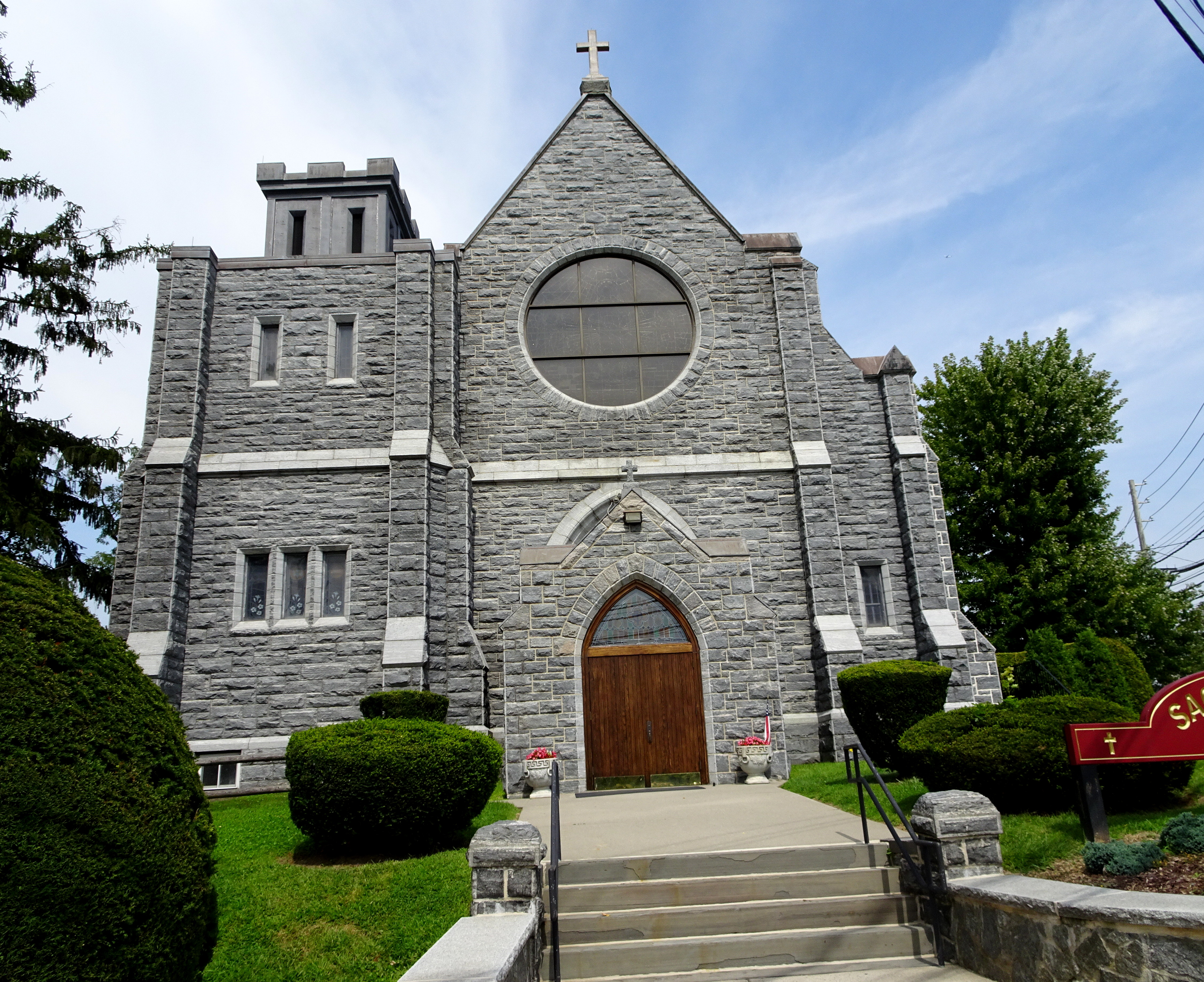 Looking north from Broadway at Sacred Heart Church on a mostly sunny midday.